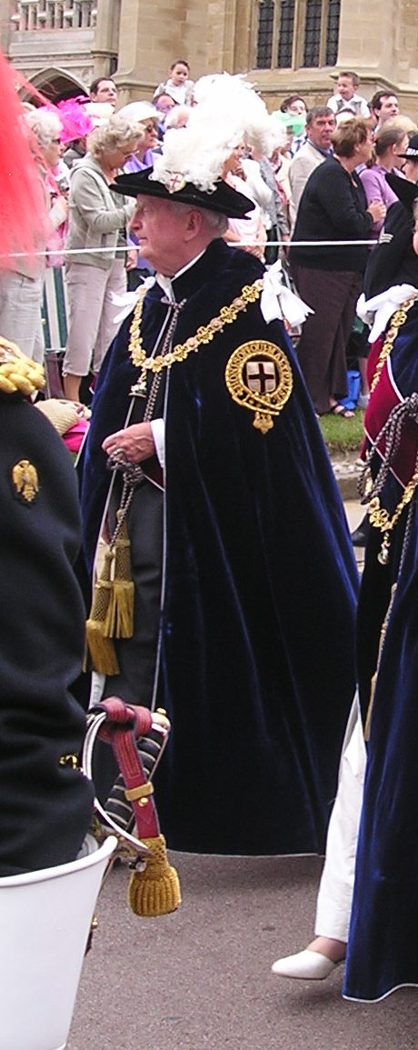 Lord Morris of Aberavon wearing his robes as a Knight Companion of the Order of the Garter, in procession to St George's Chapel, Windsor Castle for the annual service of the Order of the Garter.